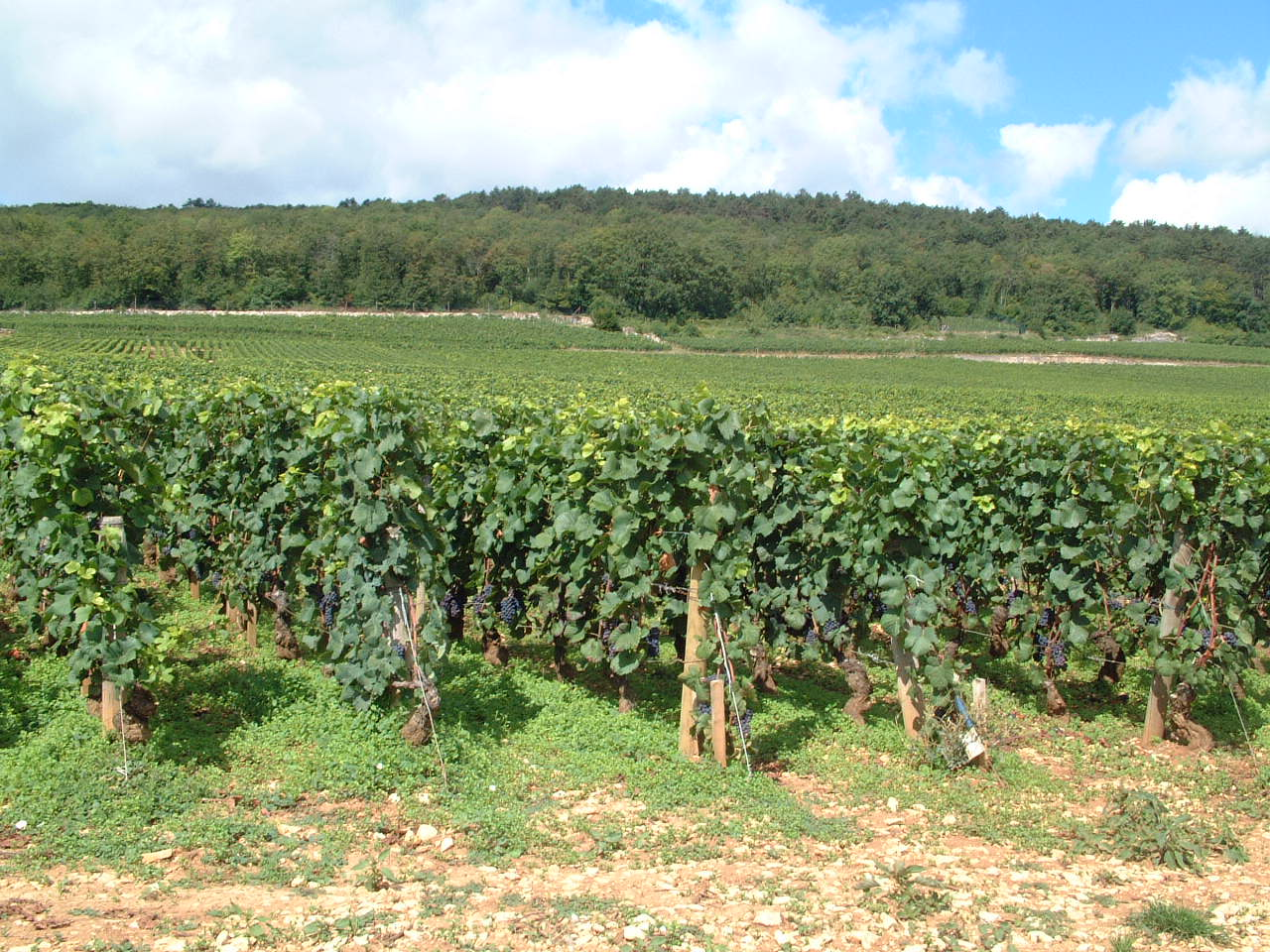 The Chambertin vineyard in Burgundy. Photo by User:PortnadlerPortnadler, taken August 2006. Summary The Chambertin vineyard in Burgundy. Photo by Portnadler, taken August 2006.